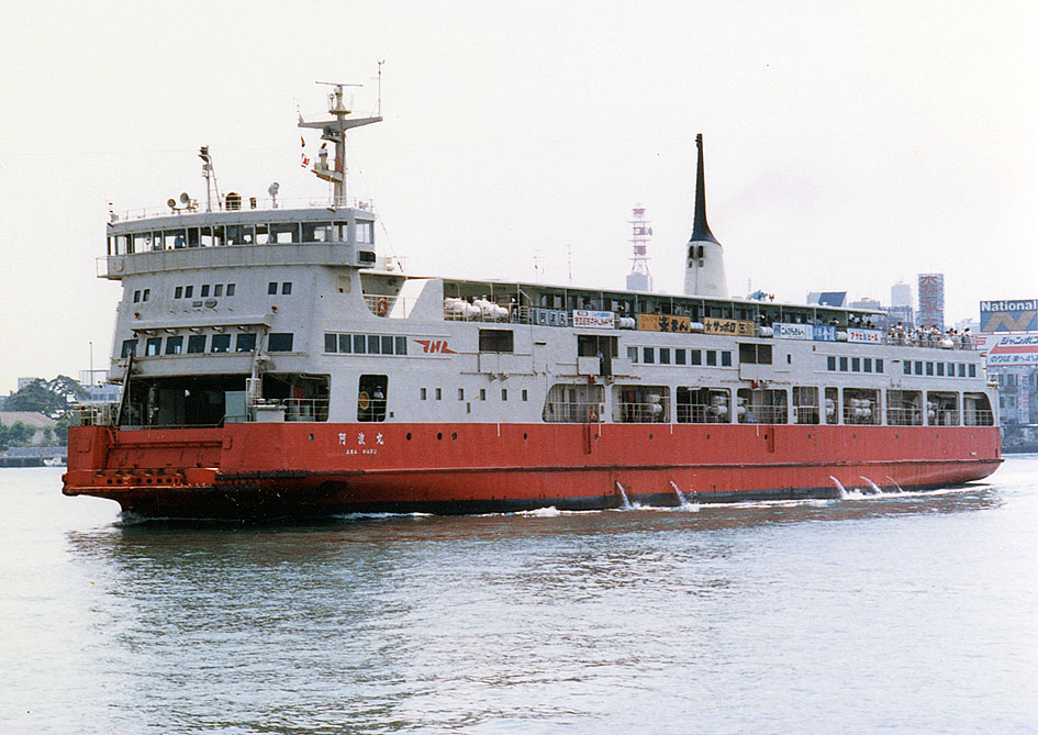 Awa Maru